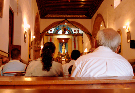 Inside the Church of the Inmmaculate Conception in Mocorito Church